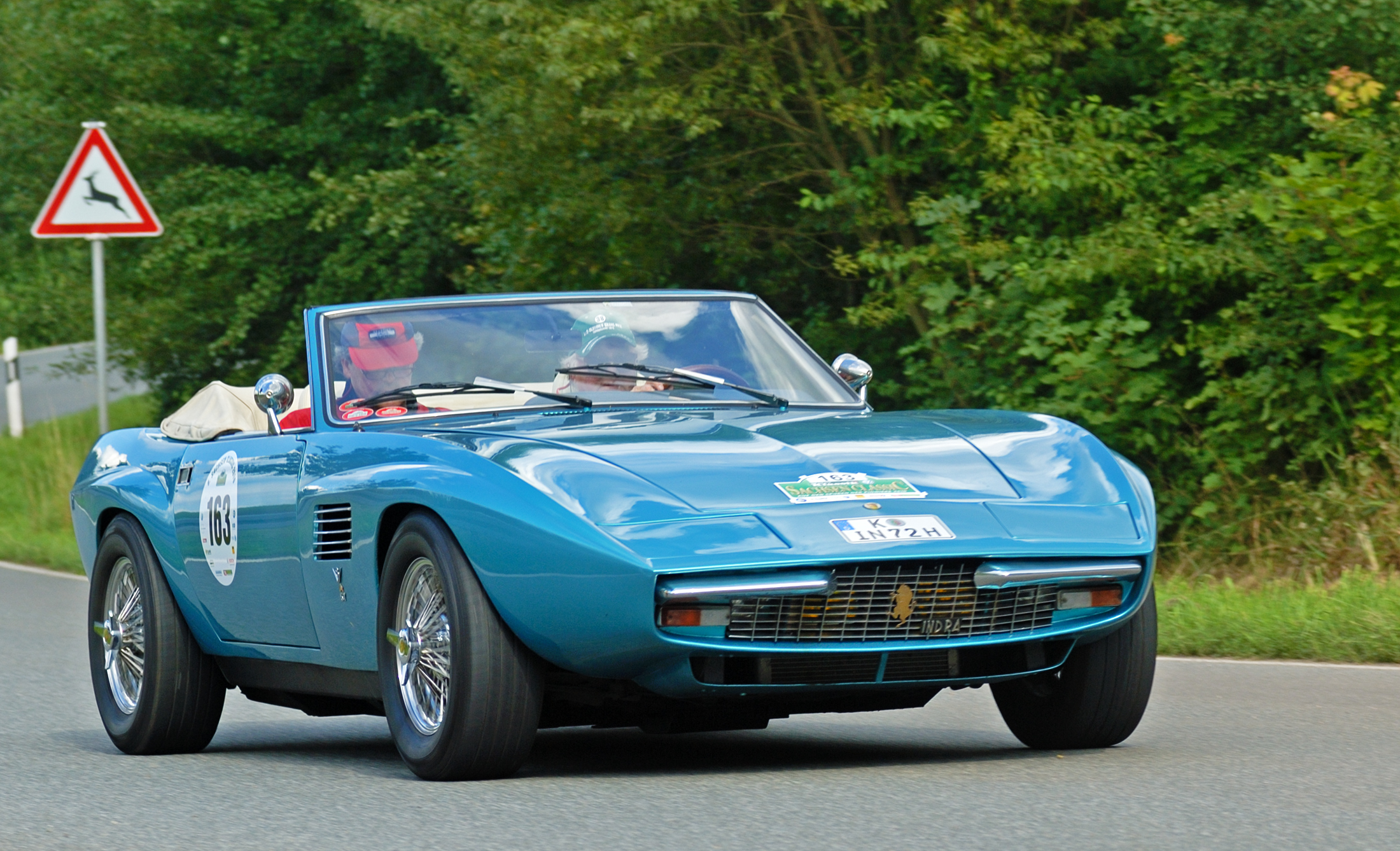 Intermeccanica Indra from 1972 during the Saxony Classic Rallye 2010.